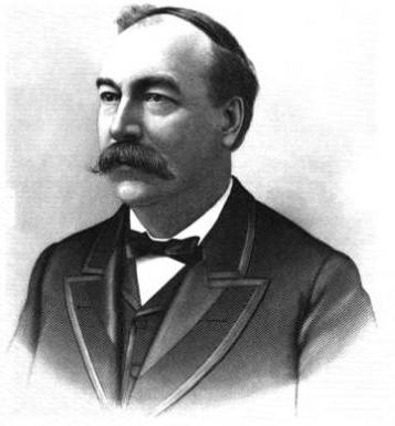 Watson C. Squire, twelfth governor of the Washington Territory (US), later U.S. Senator from Washington.